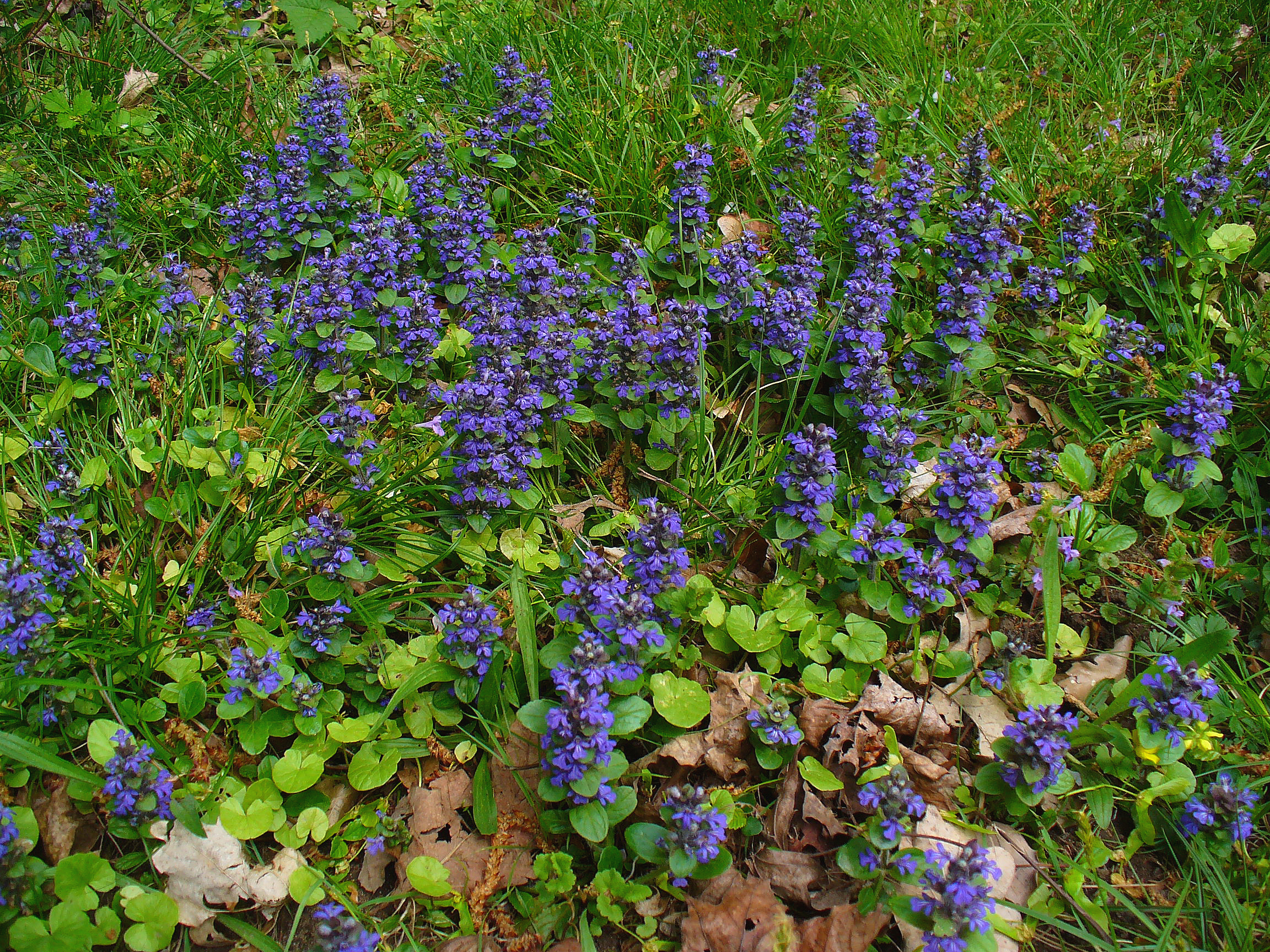 Ajuga reptans, Lamiaceae, Blue bugle, Bugleherb, Bugleweed, Carpetweed, Common bugle, habitus; Karlsruhe, Germany. The fresh, total plant is used in homeopathy as remedy: Ajuga reptans (Ajug-r.)